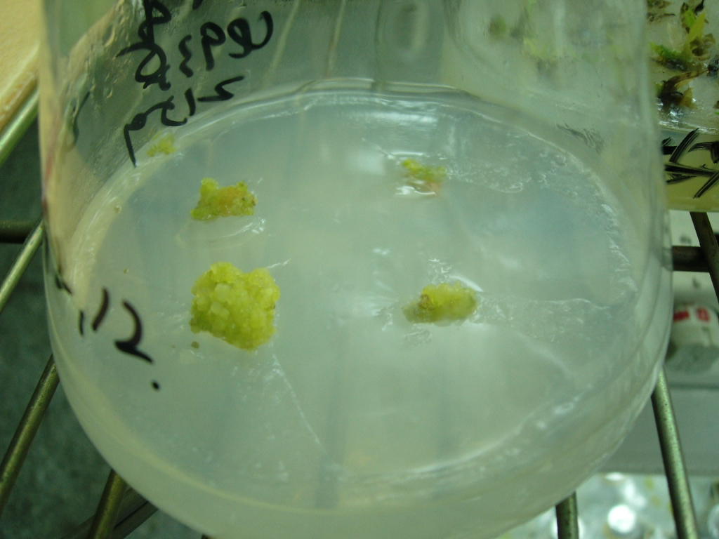 Carrot tissue in glass